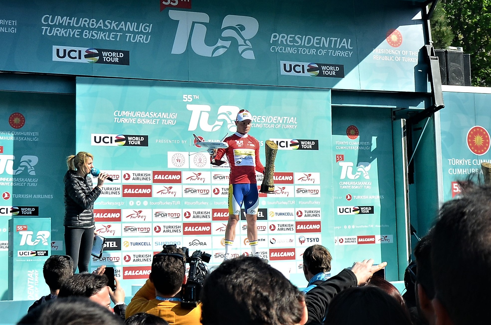 Winner of the Climbing classification Thimo Willems at (Sport Vlaanderen–Baloise) of the 55th Presidential Cycling Tour of Turkey 2019 at at the award ceremony.